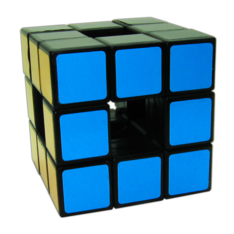 Void Cube.